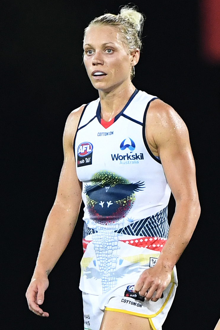 Erin Phillips of Adelaide during the 2019 AFL Women's practice match between the Adelaide Football Club and Fremantle Football Club at TIO Stadium on January 19, 2019 in Darwin Australia.